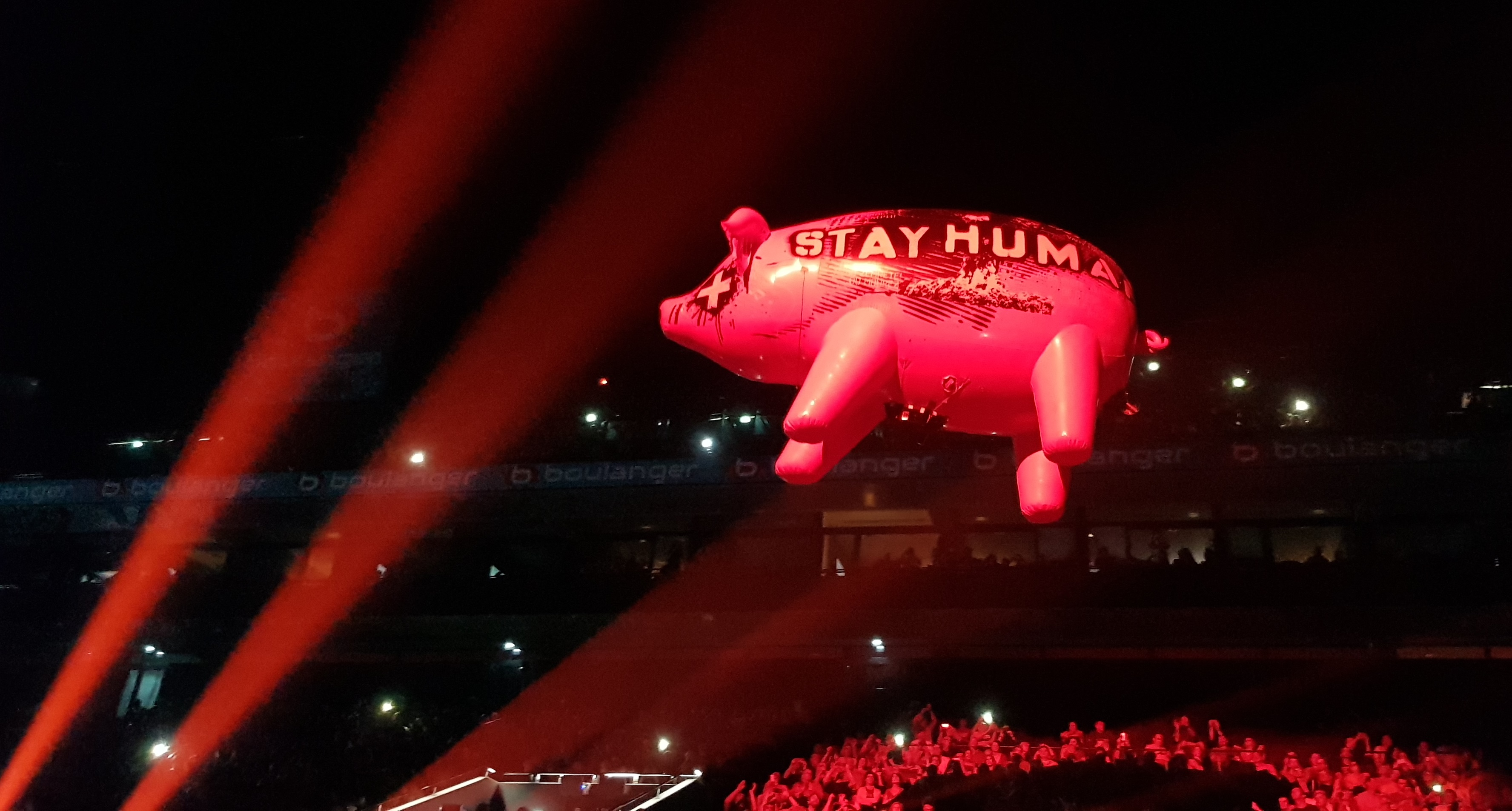 Pig-shaped balloon (as in Animals album) at a Roger Waters concert at the Paris La Défense Arena (named U Arena at the time), on June 8th 2018